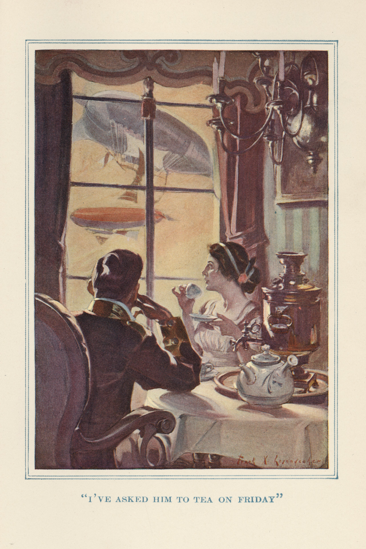 A plate from Rudyard Kipling's With the Night Mail by Frank Xavier Leyendecker